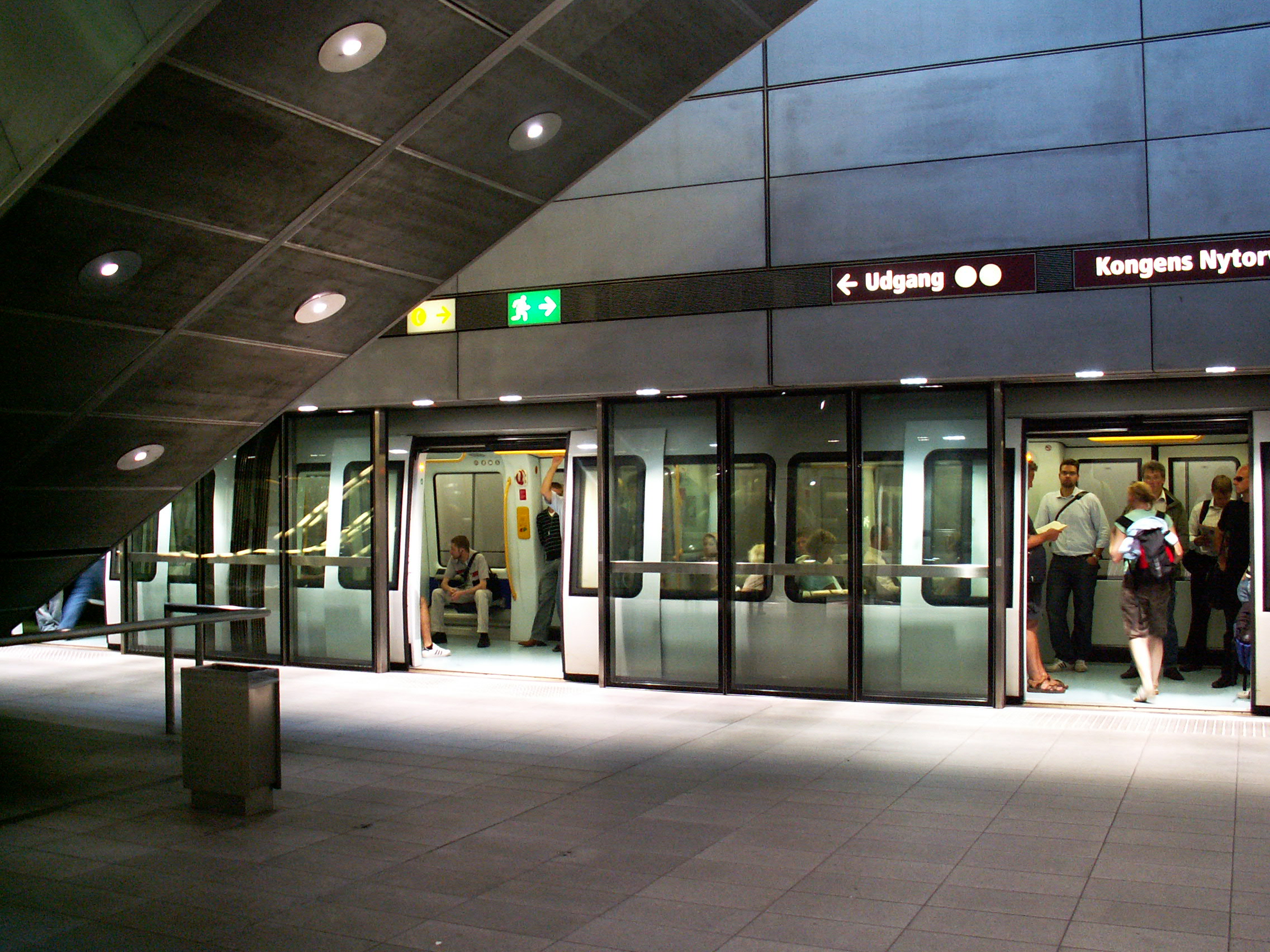 København Metro at Kongens Nytorv station